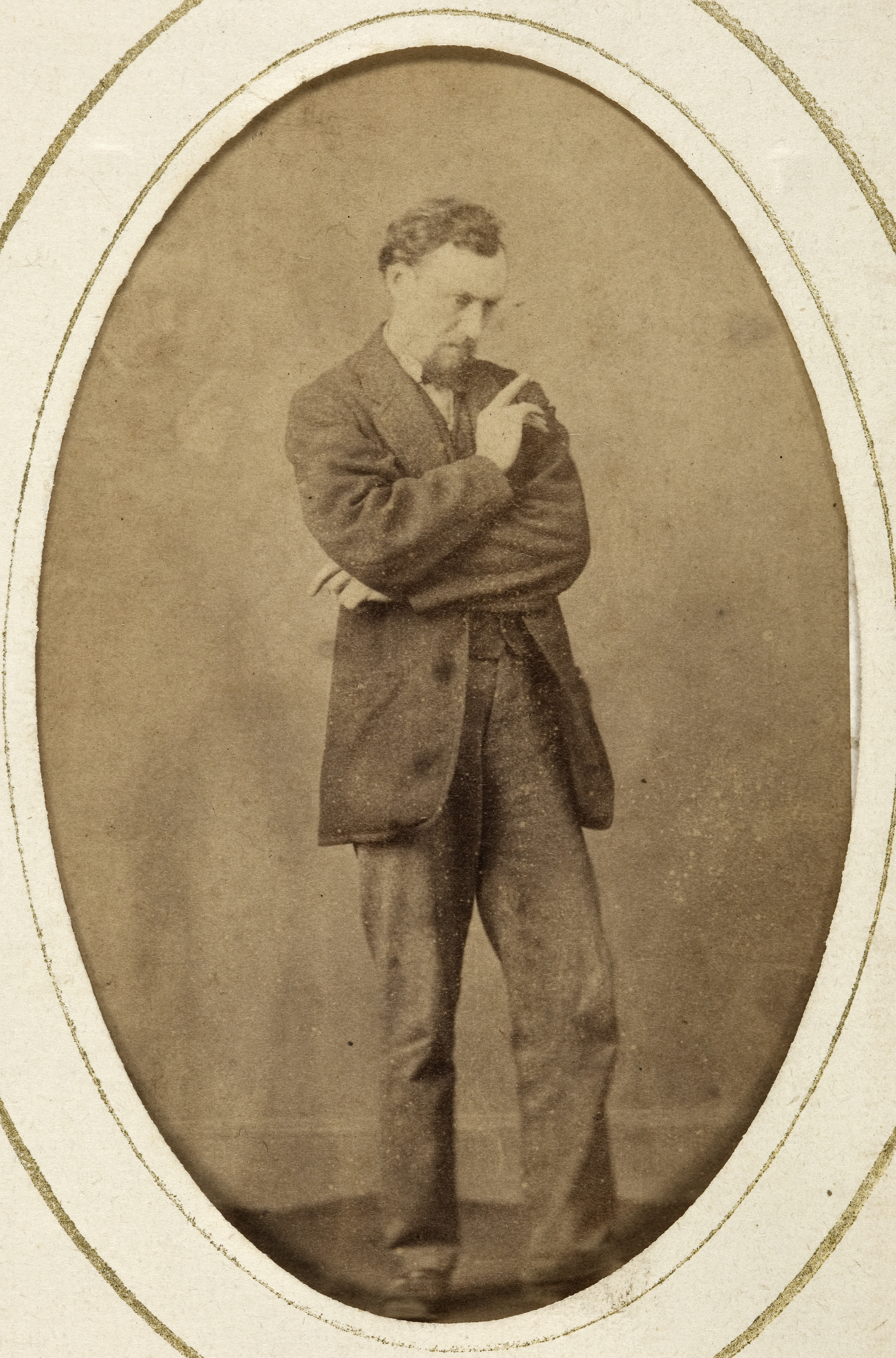 Walter Burton, 1870s, Dunedin, by Burton Brothers studio. Te Papa (O.034216)